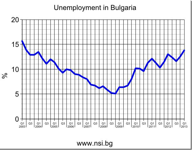 Unemployment Rate in Bulgaria from Q1 2003 to Q1 2013